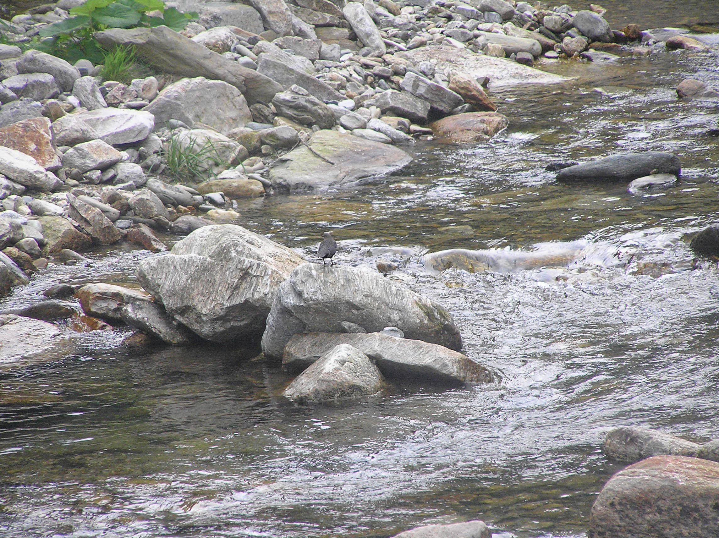 Malá Úpa (creek), Krkonoše, Czech Republic